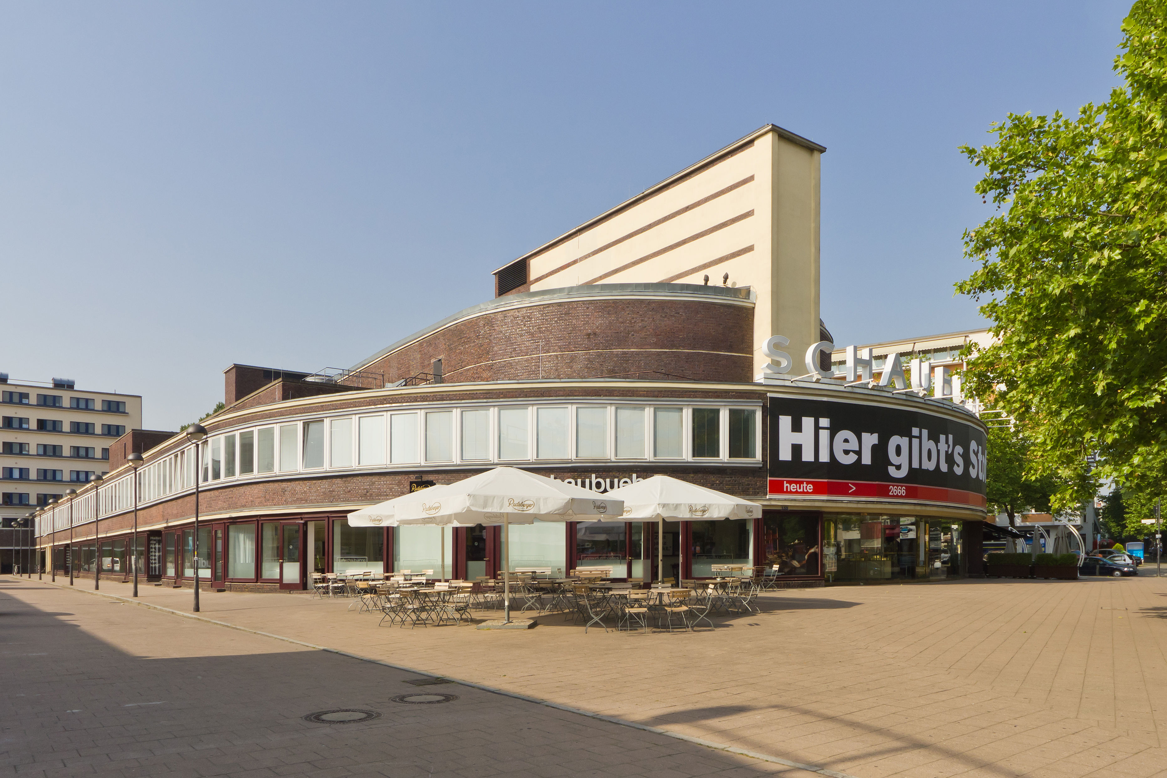 Building of the Schaubühne theater, Berlin, Germany